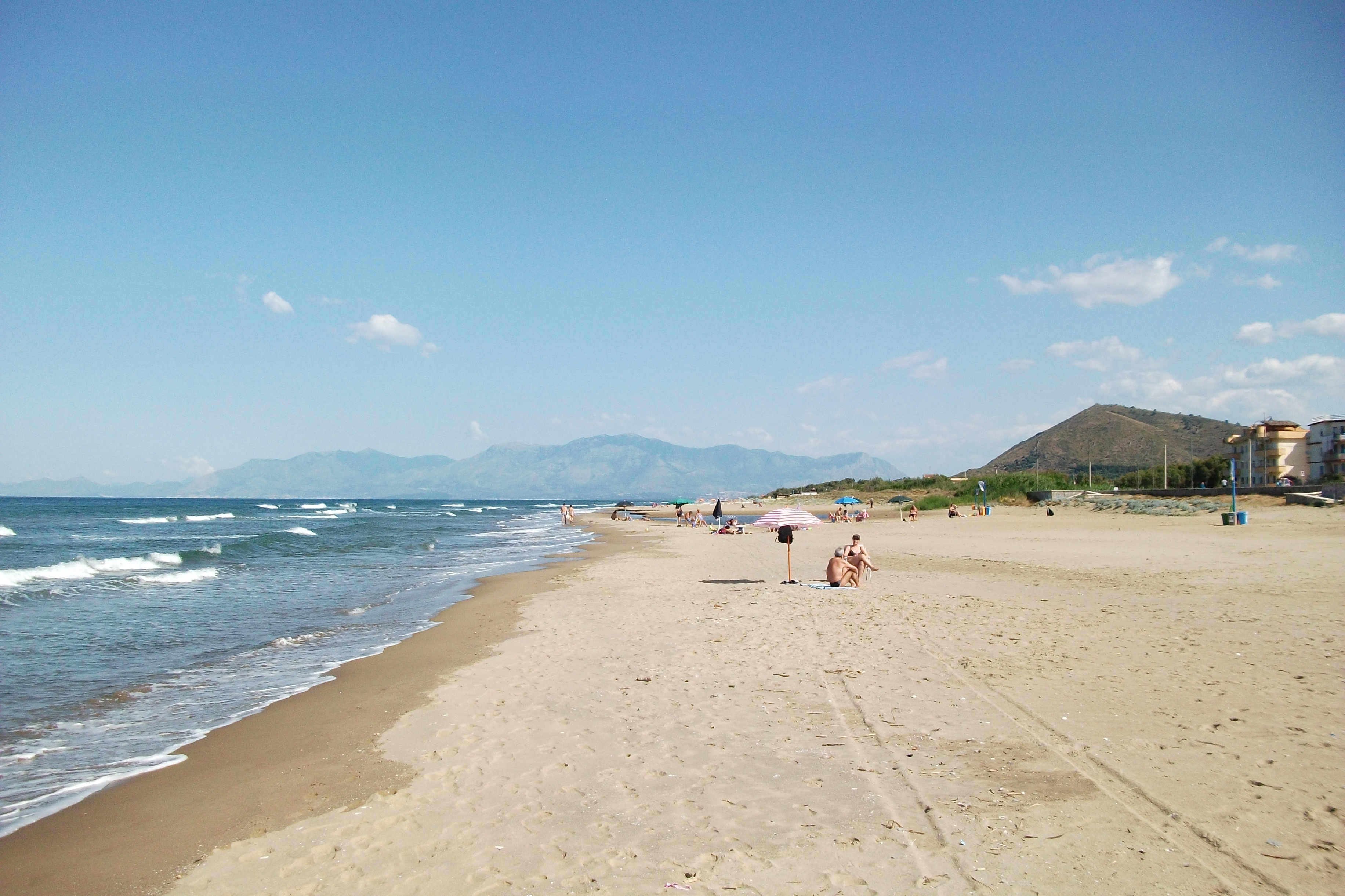 Lungomare Mondragonese